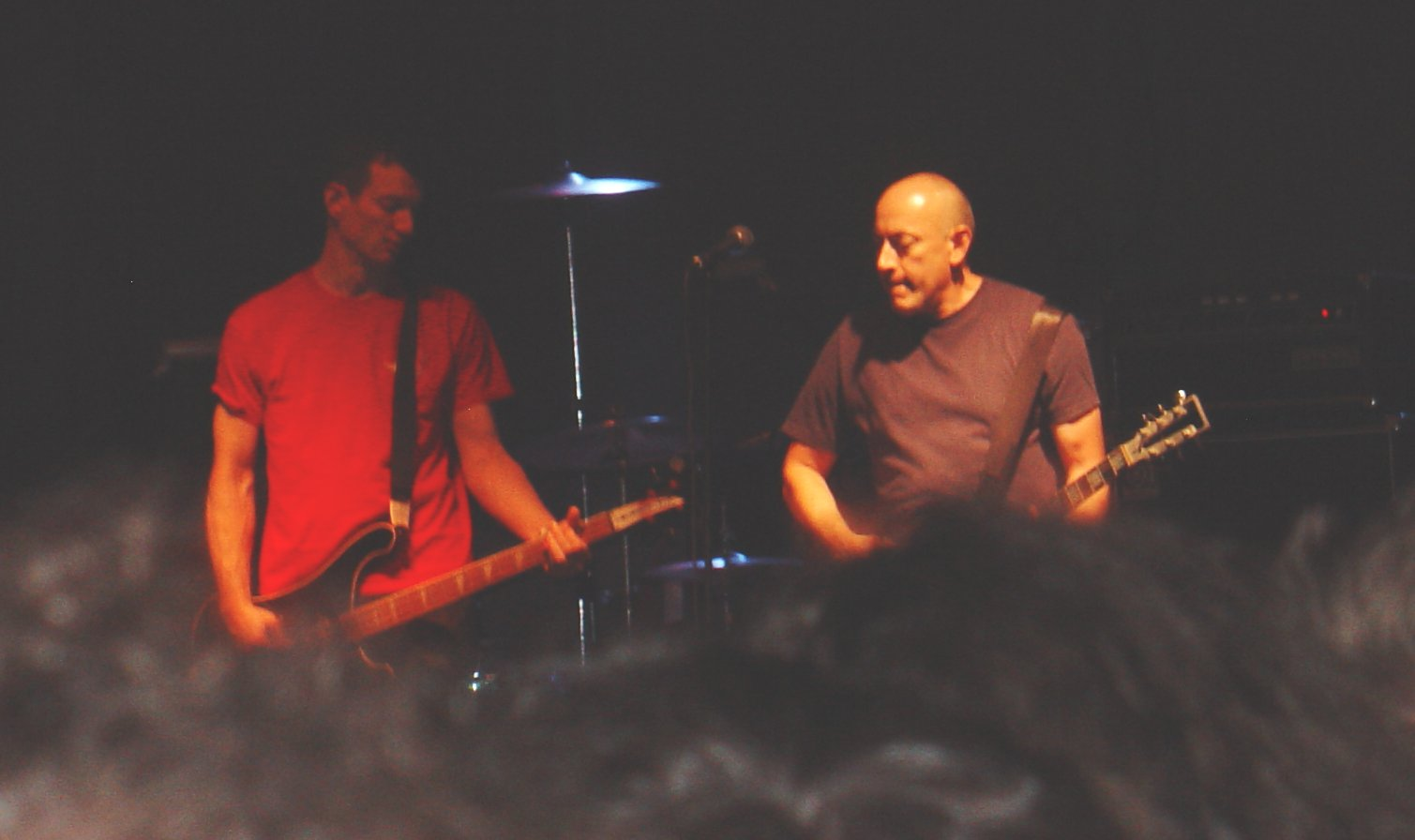 Jeff Pezzati and Santiago Durango on stage in Chicago with Big Black.